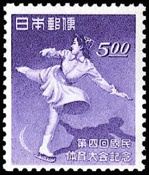 Postage stamp of Japan, ice skating girl, 1949, 5 yen